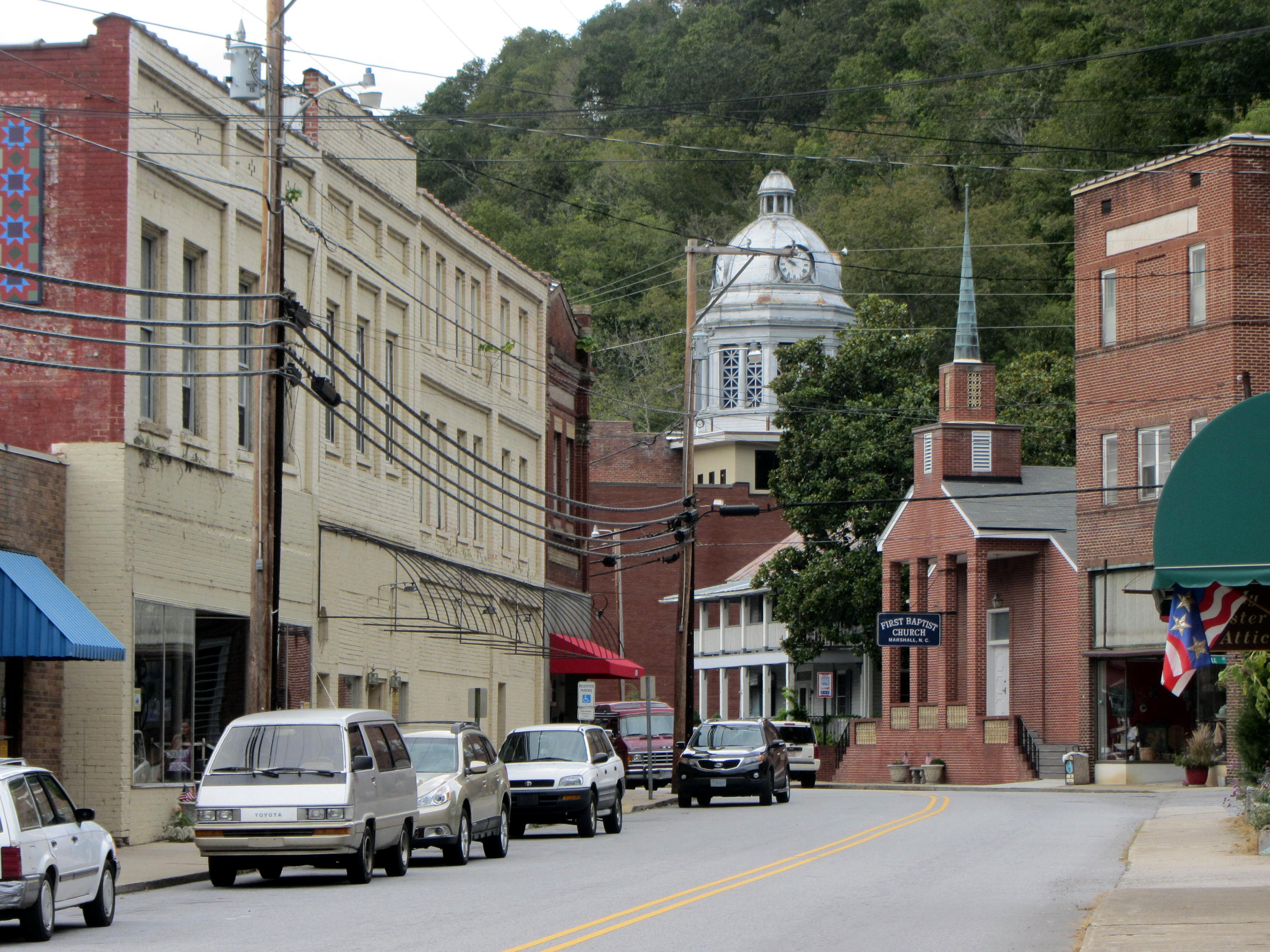 17 Marshall, NC